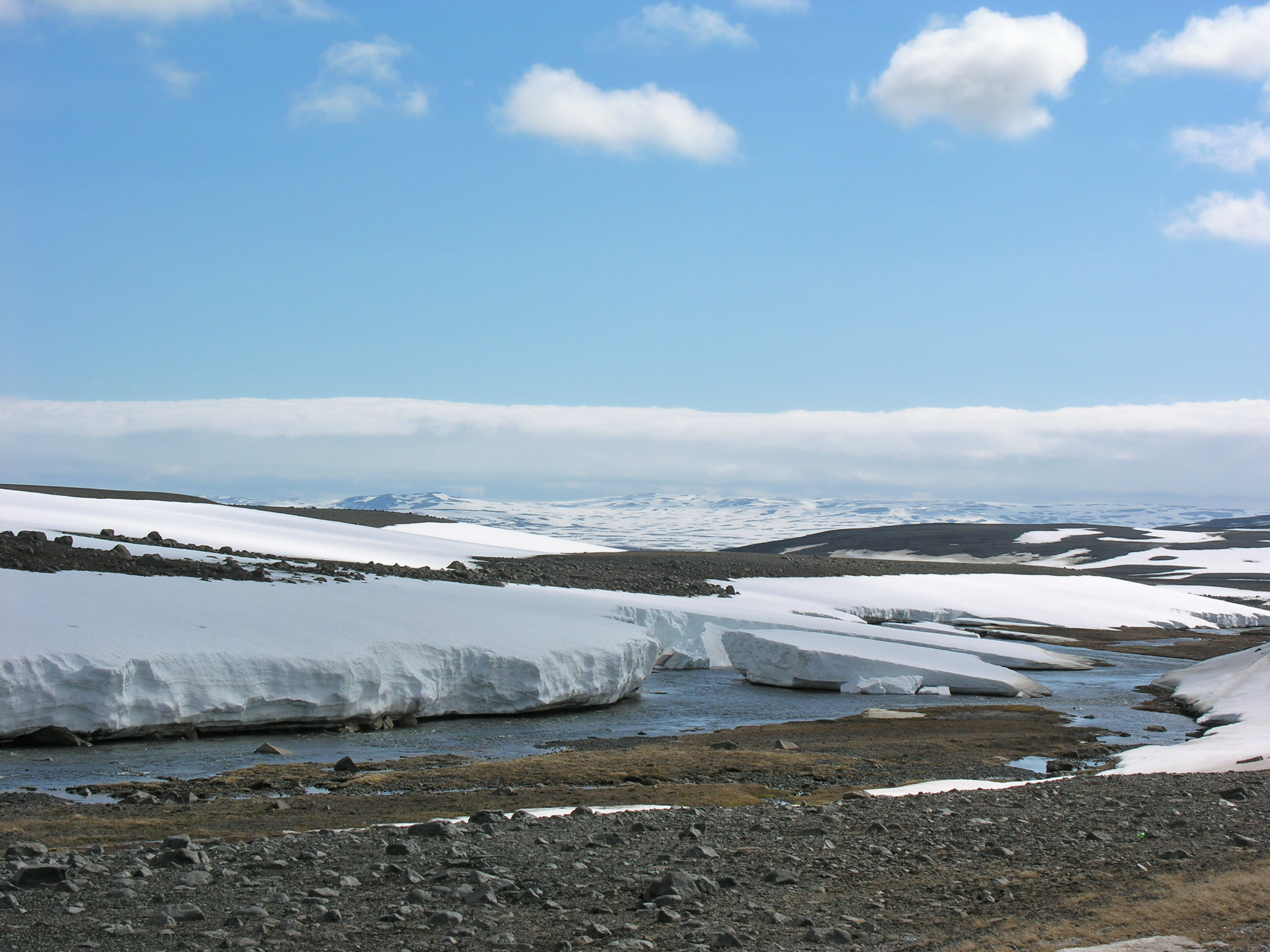 Iceland, along the ring road - Hringvegur - in the Eastern part of Iceland.